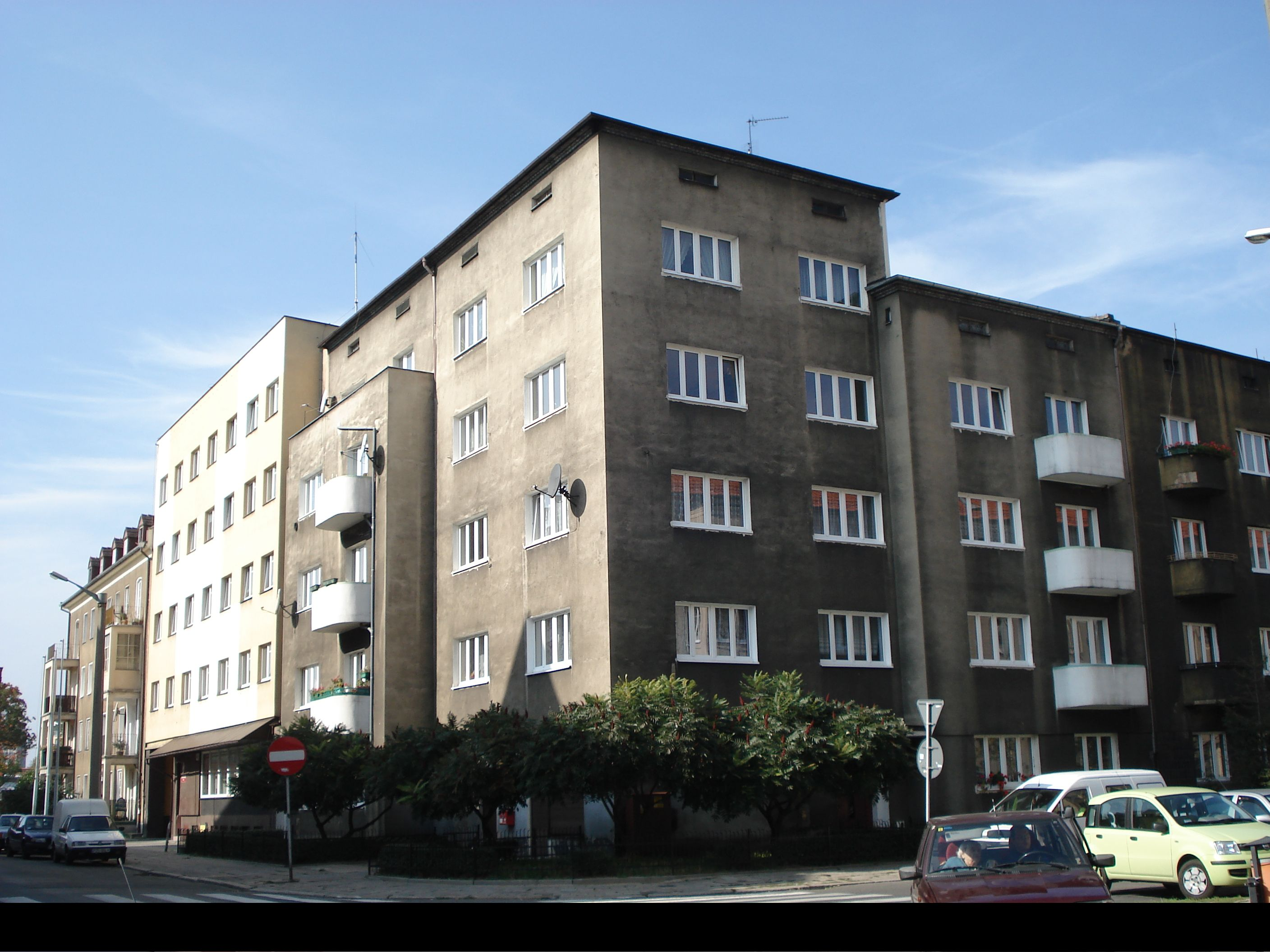 Corner of the Siemiradzkiego and Kossaka Street in Poznań, 1930'